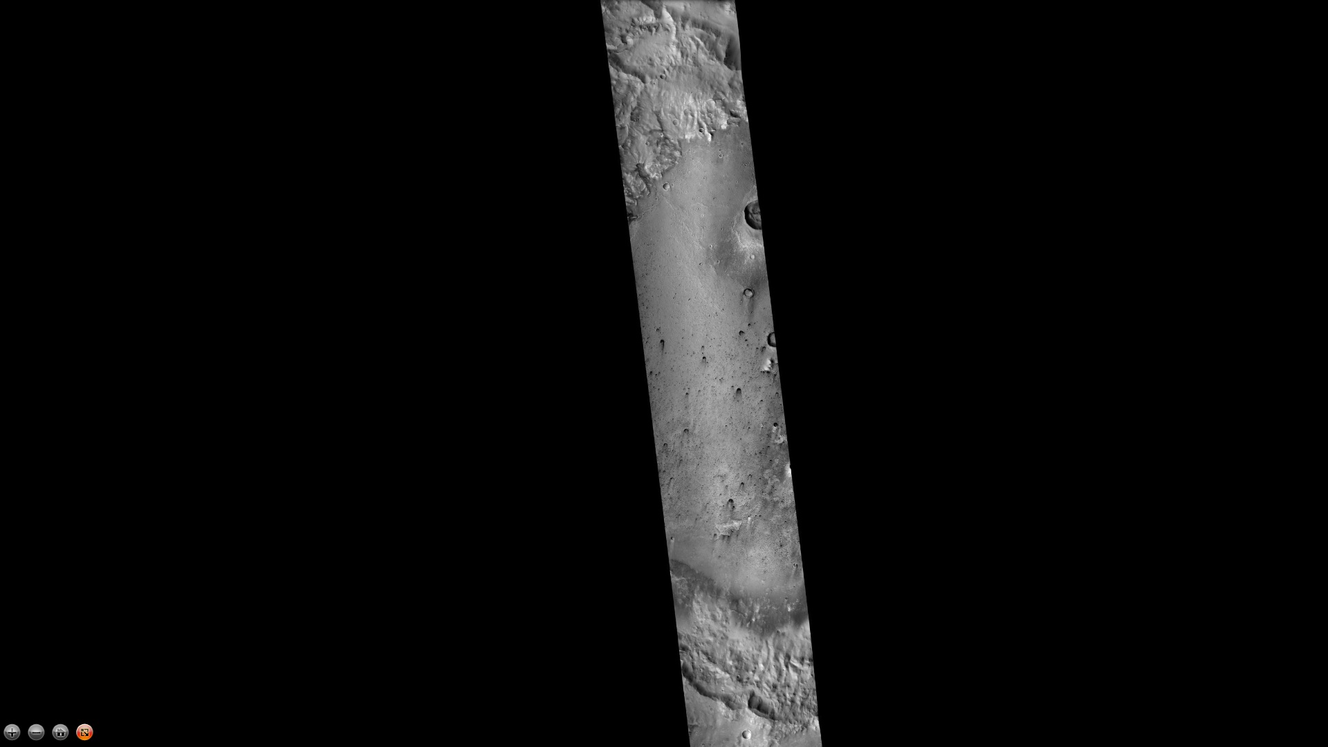 Knobel Crater, as seen by CTX